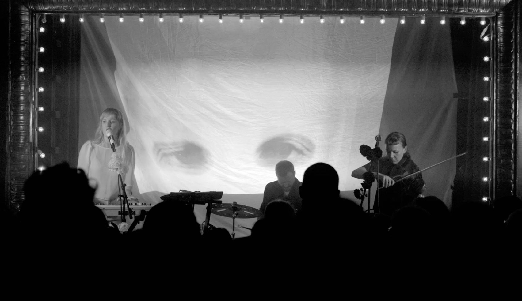 Gracie and Rachel performing at Union Pool in Brooklyn, NY on July 19, 2017